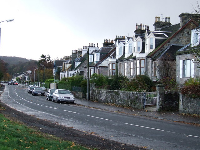 Main Road, Langbank Main Road bordered the River Clyde until the A8 was re-aligned on reclaimed land in the mid 1970s. As a result, most of the houses are on the south side of the road.